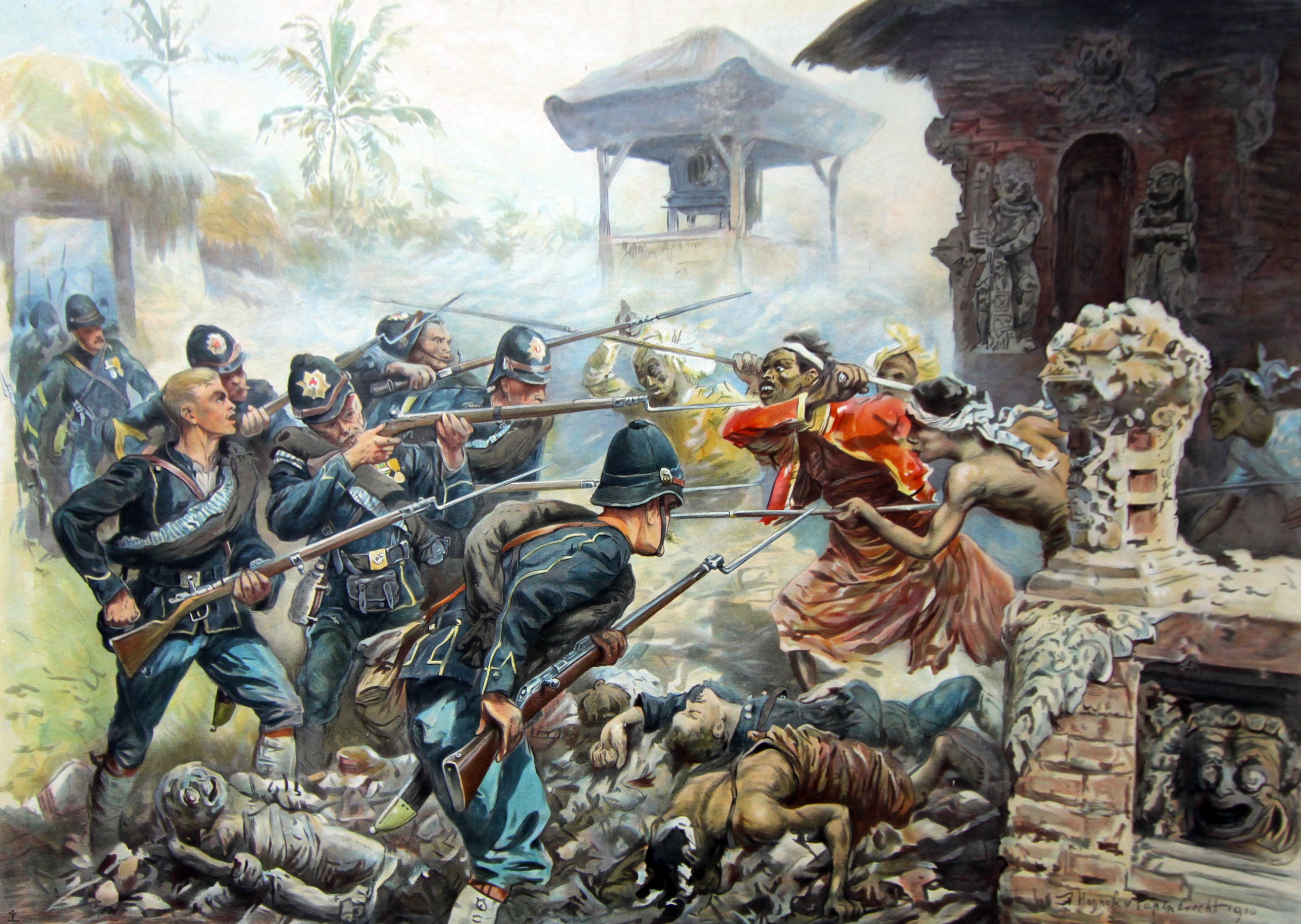 Lombok_1894_J._Hoynck_van_Papendrecht_1858_1933